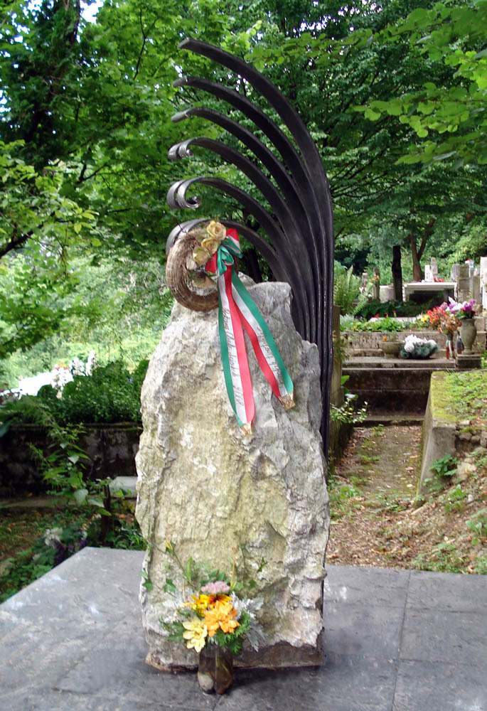 Tomb of Henrik Fazola. Work of György Seregi. Cemetery Felsőhámor, Miskolc, Hungary